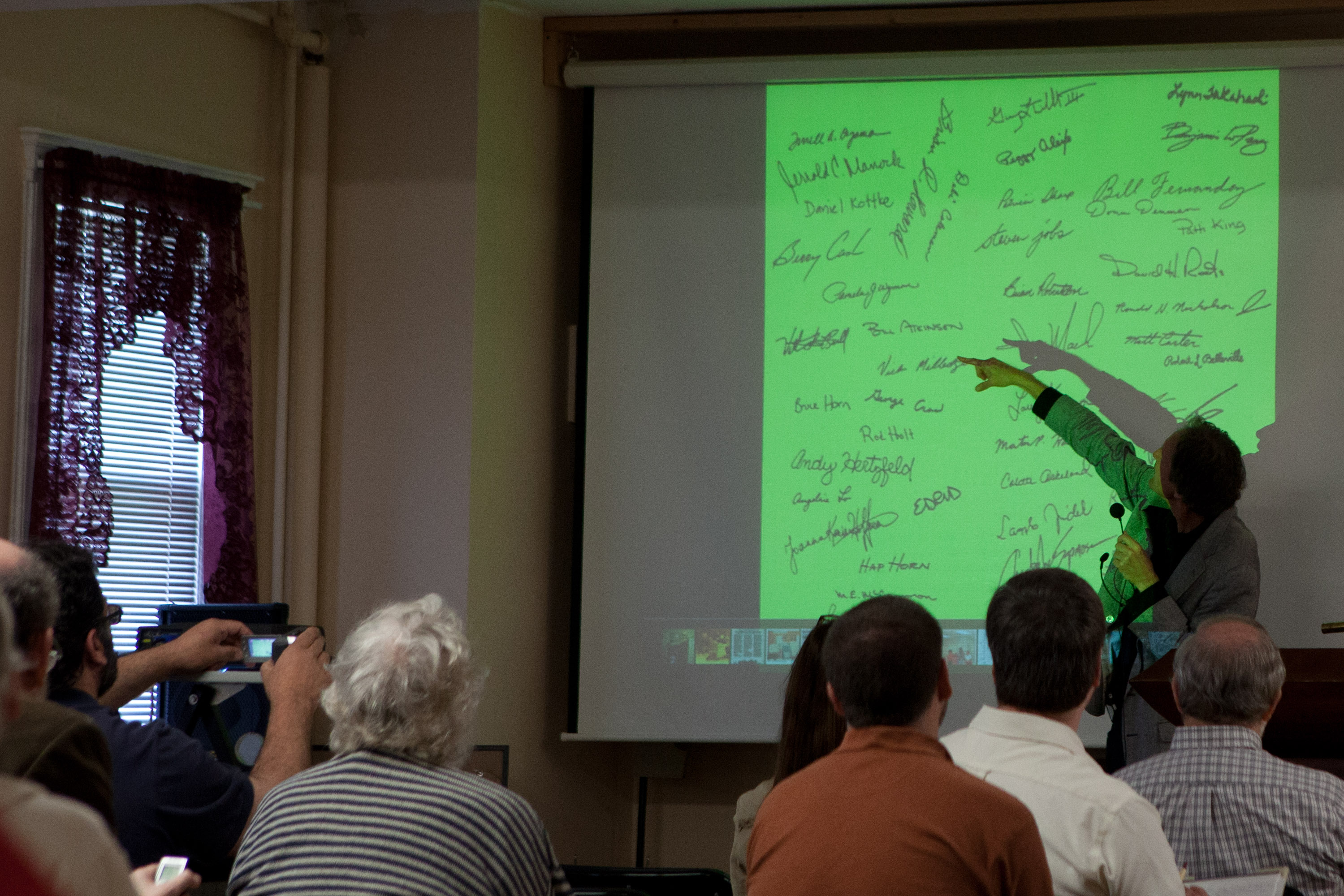 Daniel Kottke pointing to his name on the signatures inside the Macintosh during his keynote at the Vintage Computer Festival East 8.0.